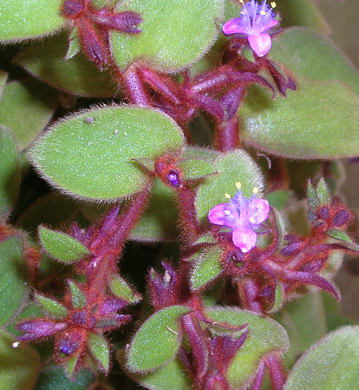 A cultivated specimen of Belosynapsis kewensis in a hanging basket. (ID: Djlayton4)